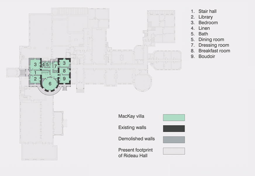 Self-created